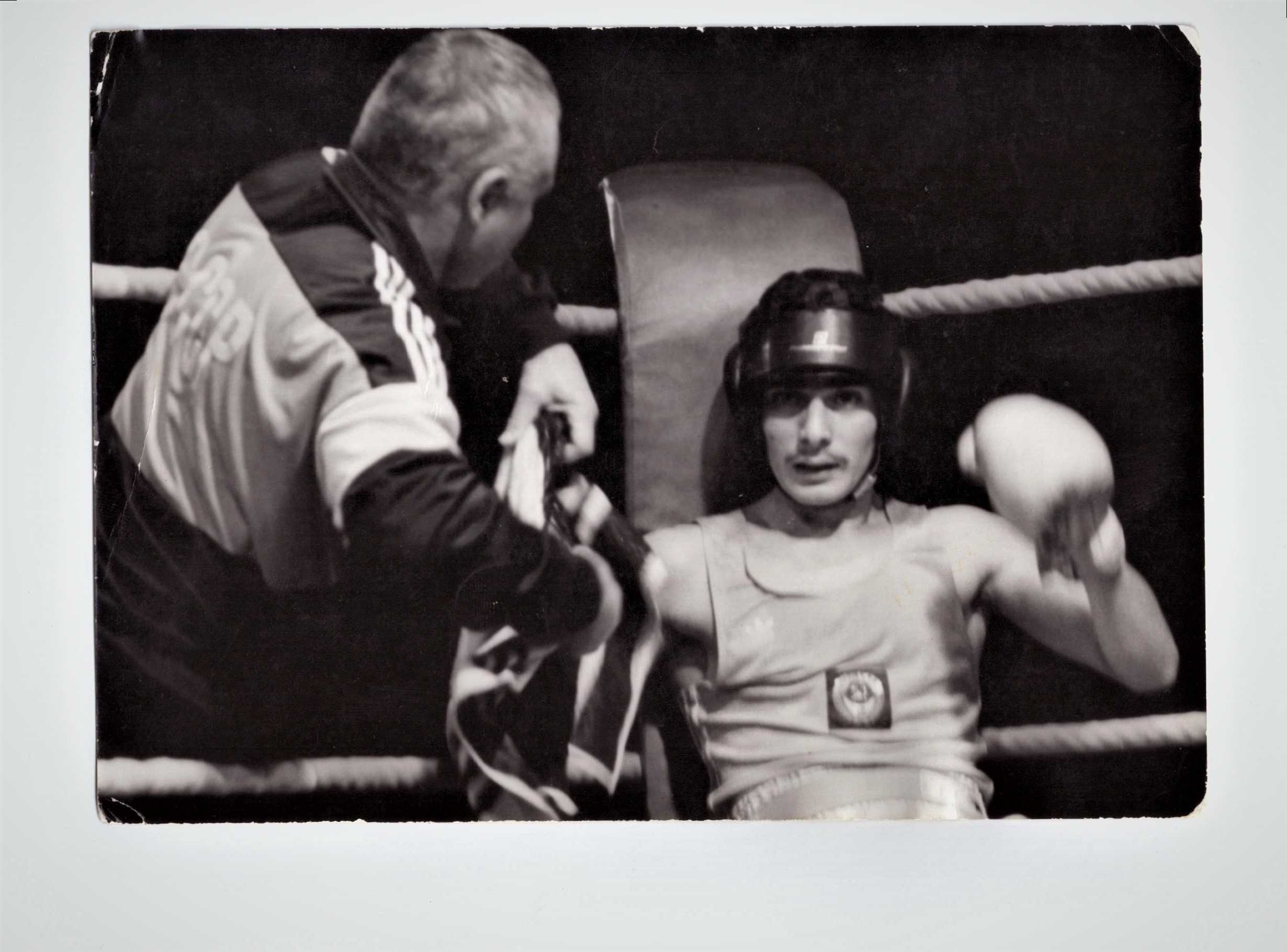 Break between rounds